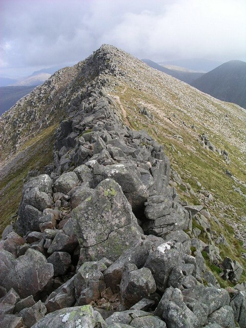 Ridge to Stob Coire Dheirg. One of the most narrow and rocky ridges I have walked! On the path going east from Ben Starav.